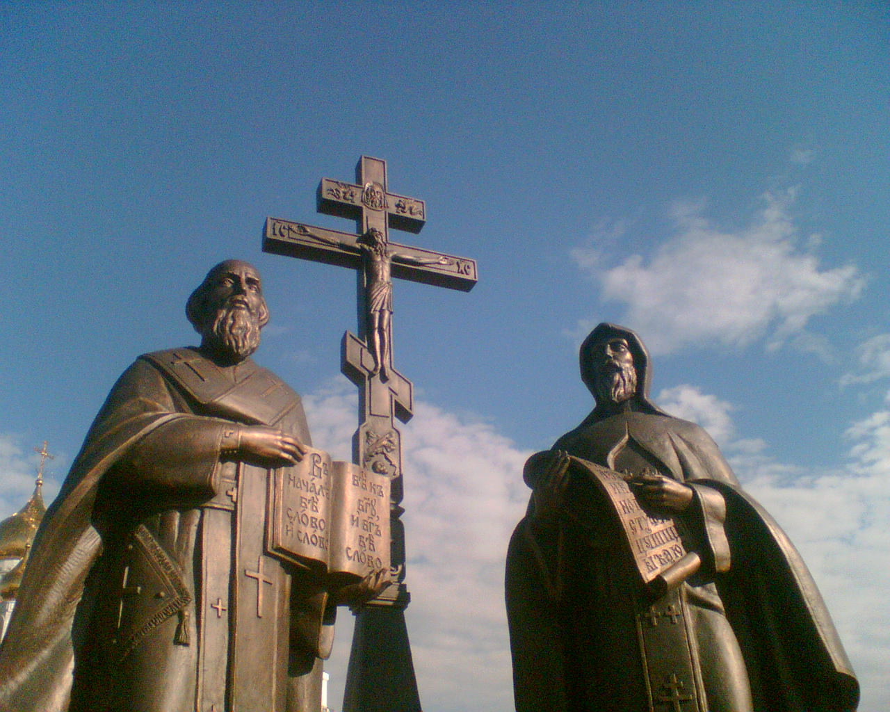 The True Cross. Saint Equal-to-the-Apostles Cyril and Methodius. Khanty-Mansisyk